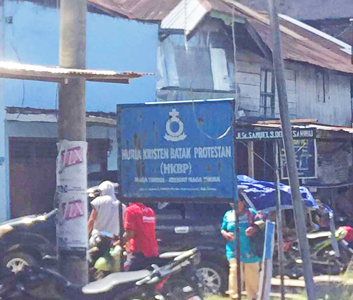 HKBP Naga Timbul, Res. Naga Timbul church in Naga Timbul Timur, Bonatua Lunasi, Toba Samosir